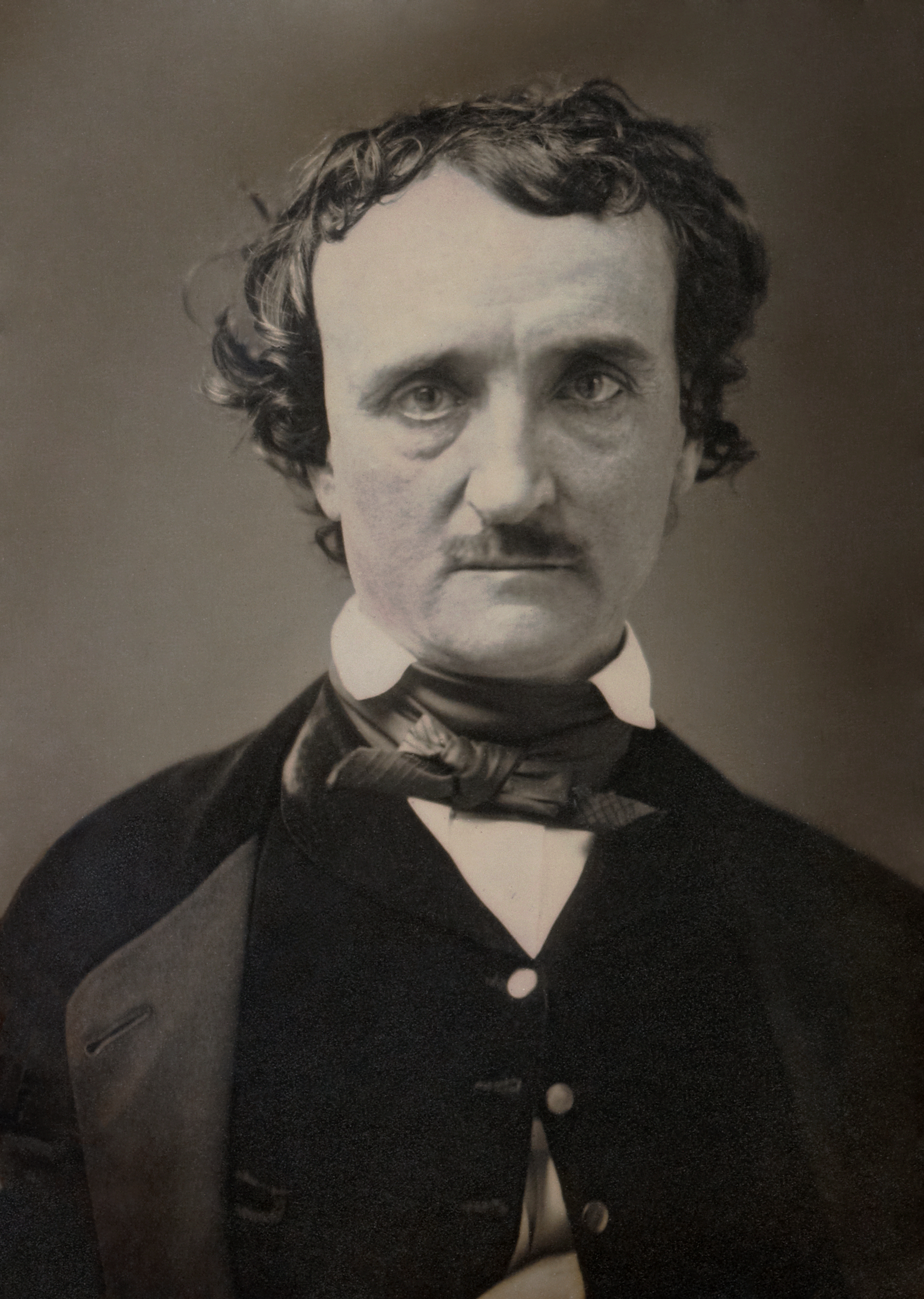 Edgar Allan Poe, June 1849. Daguerreotype "Annie", given to Poe's friend Mrs. Annie L. Richmond; probably taken in June 1849 in Lowell, Massachusetts, photographer unknown.